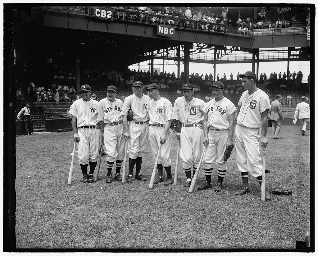 Original description: Washington D.C., July 7. A million dollar base-ball flesh is represented in these sluggers of the two All-Star Teams which met in the 1937 game at Griffith Stadium today. Left to right: Lou Gehrig, Joe Cronin, Bill Dickey, Joe DiMaggio, Charlie Gehringer, Jimmie Foxx, and Hank Greenberg, 7/7/37